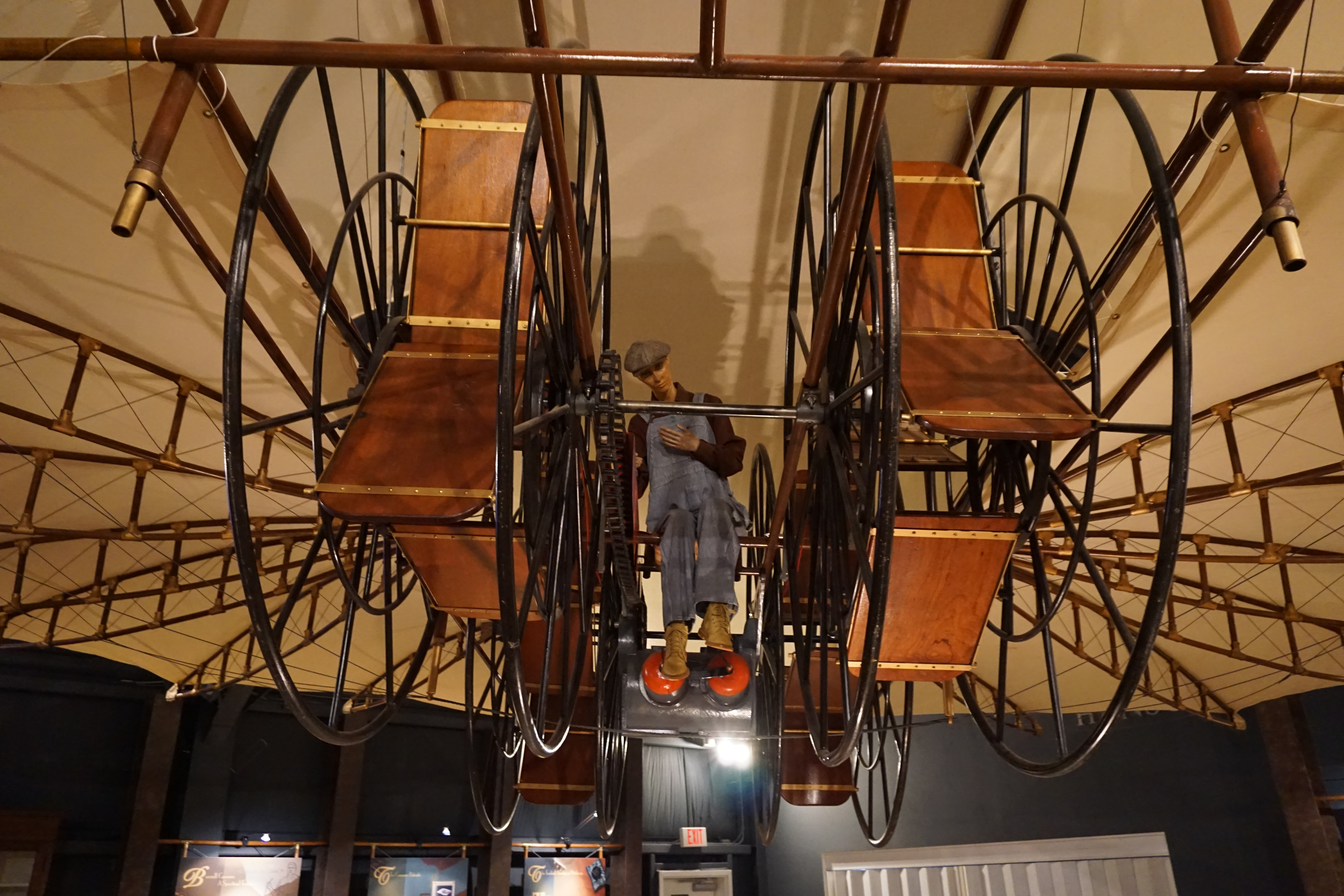 The Ezekiel Airship replica on display at the Northeast Texas Rural Heritage Center and Museum in Pittsburg, Texas (United States).